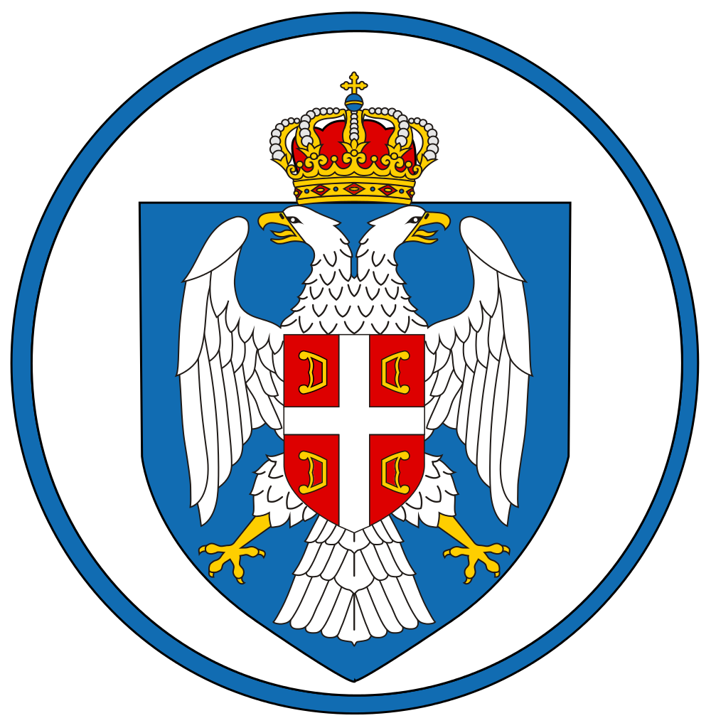 The emblem of the White Eagles